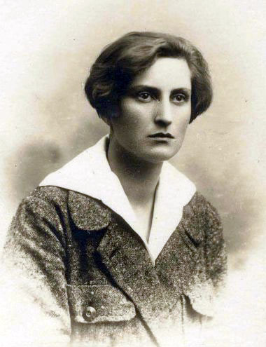 Halszka Wasilewska, eldest daughter of Leon Wasilewski and wife Wanda nee Zieleniewska